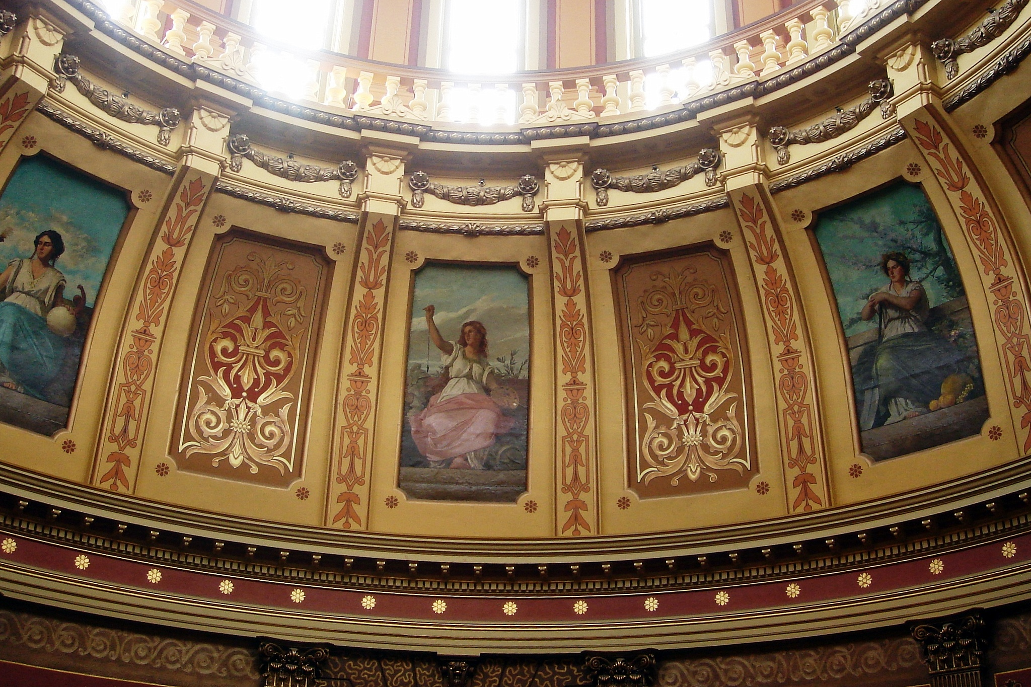 Michigan State Capitol, interior, a couple of mural paintings.